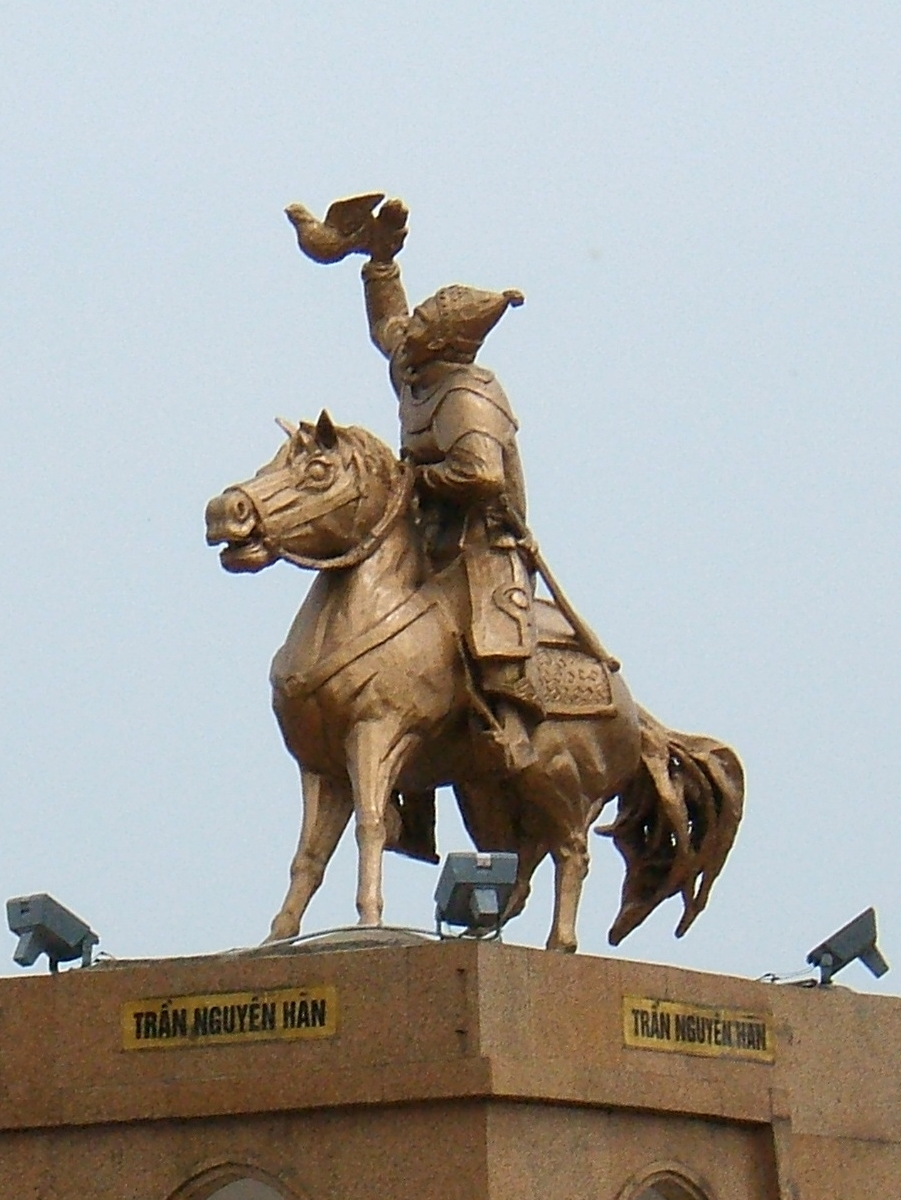 The statue of Trần Nguyên Hãn, Hồ Chí Minh City, Vietnam